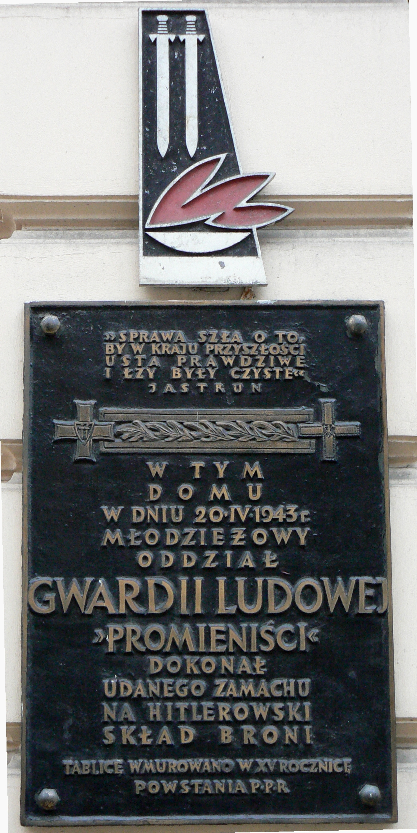 Plaque commemorating the successful attack made ​​by the Gwardia Ludowa on the Nazi armory - 20/04/1943. Piotrkowska Street 83, Łódź.